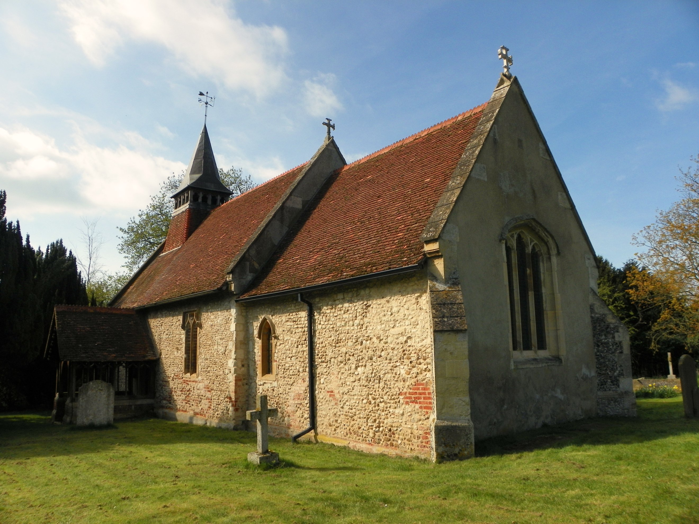 Church of All Saints, Radwell, 7 April 2011